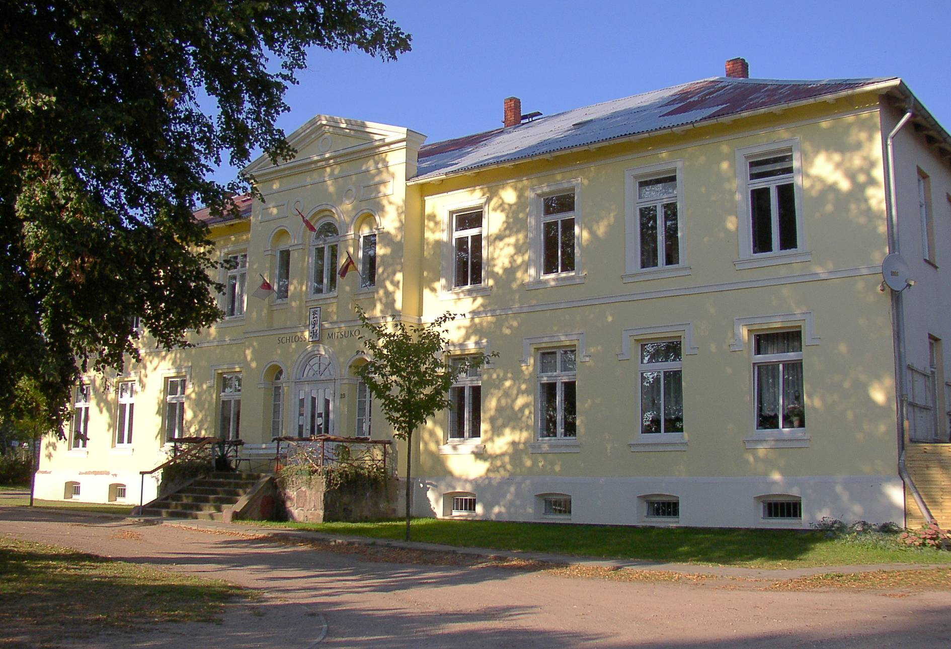 Todendorf manor in Mecklenburg-Western Pomerania, Germany